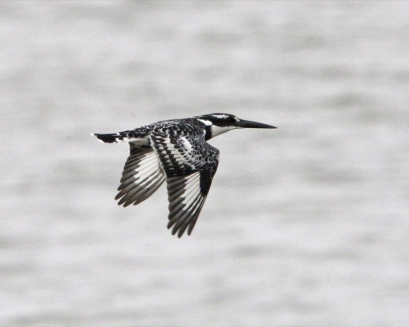 Pied Kingfisher - female Ceryle rudis ssp Ceryle rudis rudis Akagera National Park, Rwanda 15th. August 2009 Distribution: 690V1398